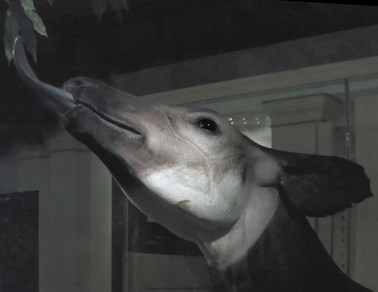 Closeup of the head of an okapi specimen at the National Museum of Natural History, Washington, DC.